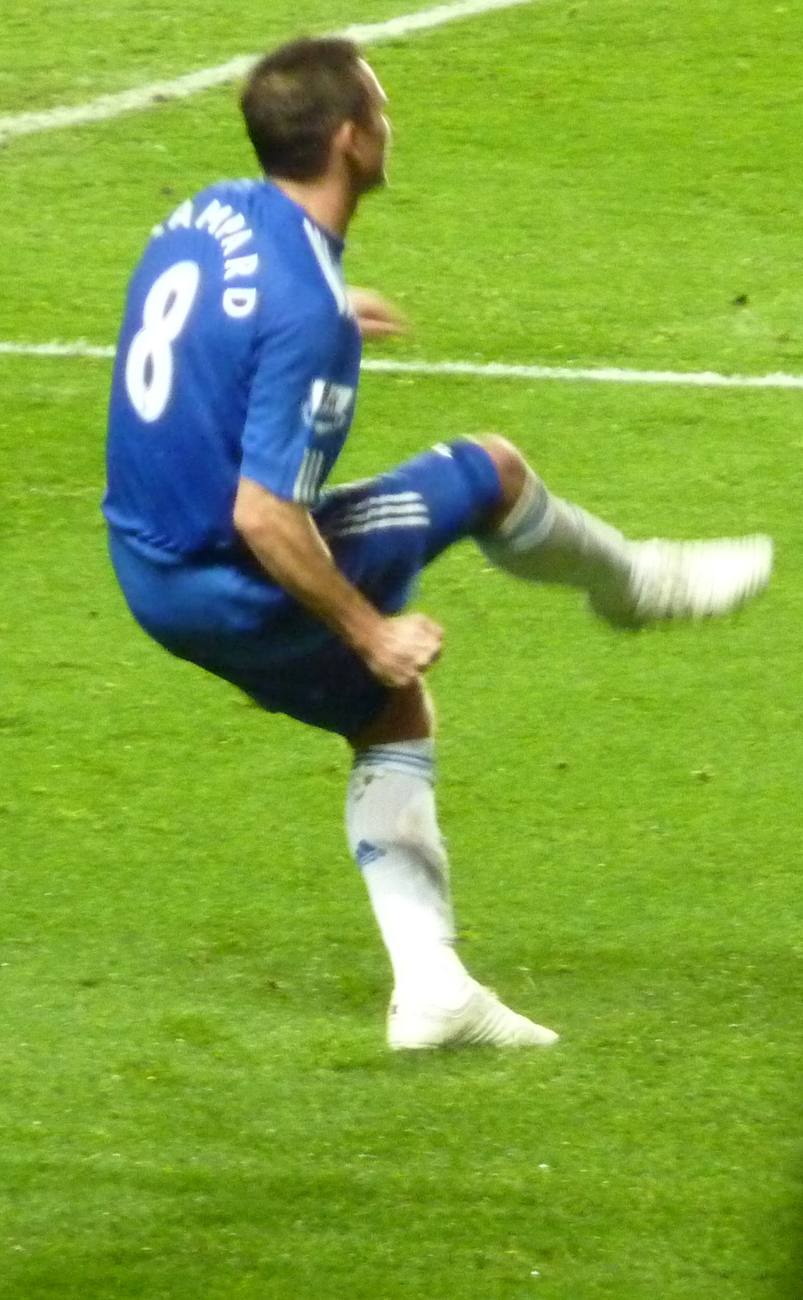 Frank Lampard hits a free kick